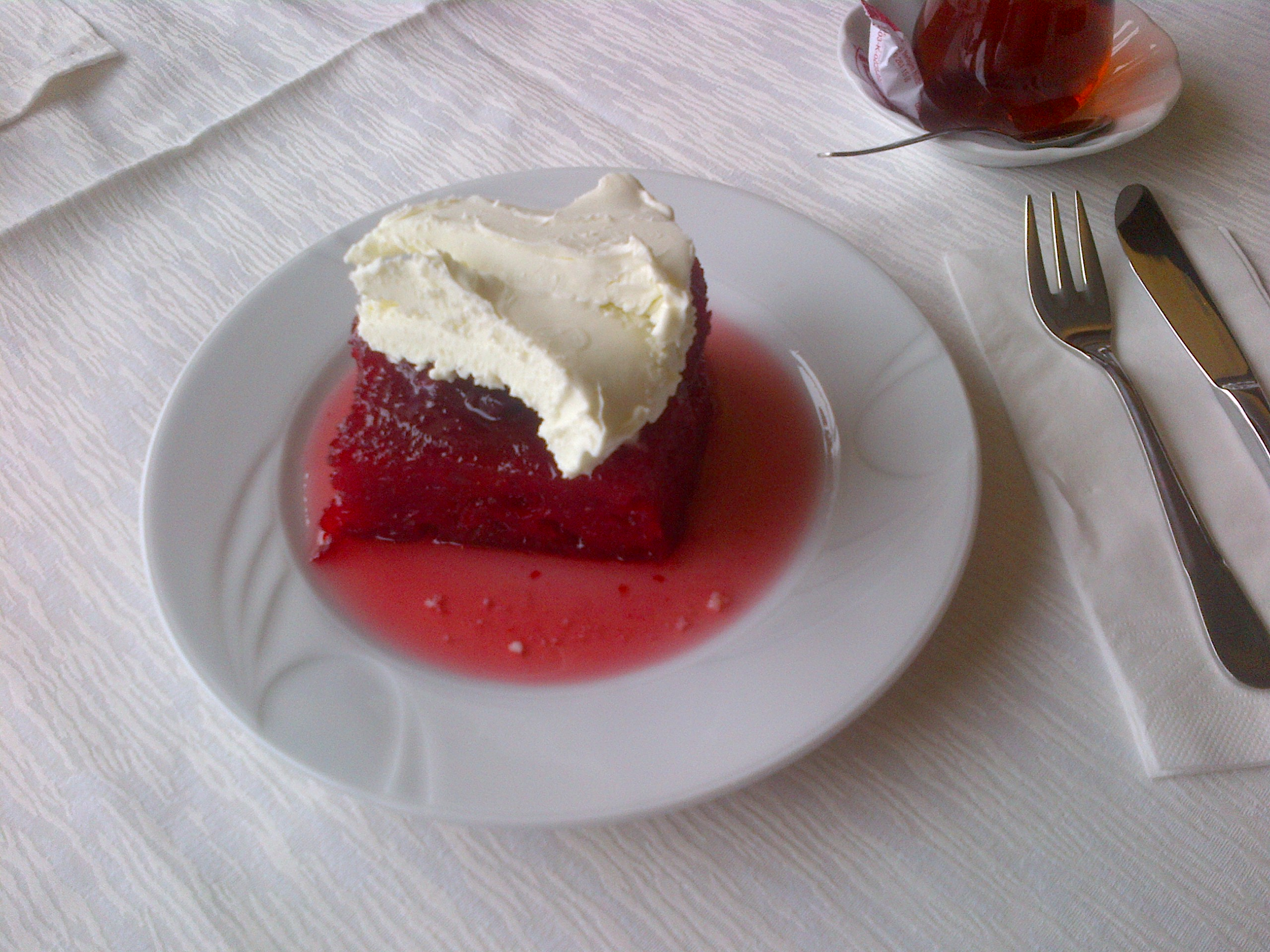 "Ekmek kadayıfı", with sour cherries and "kaymak".